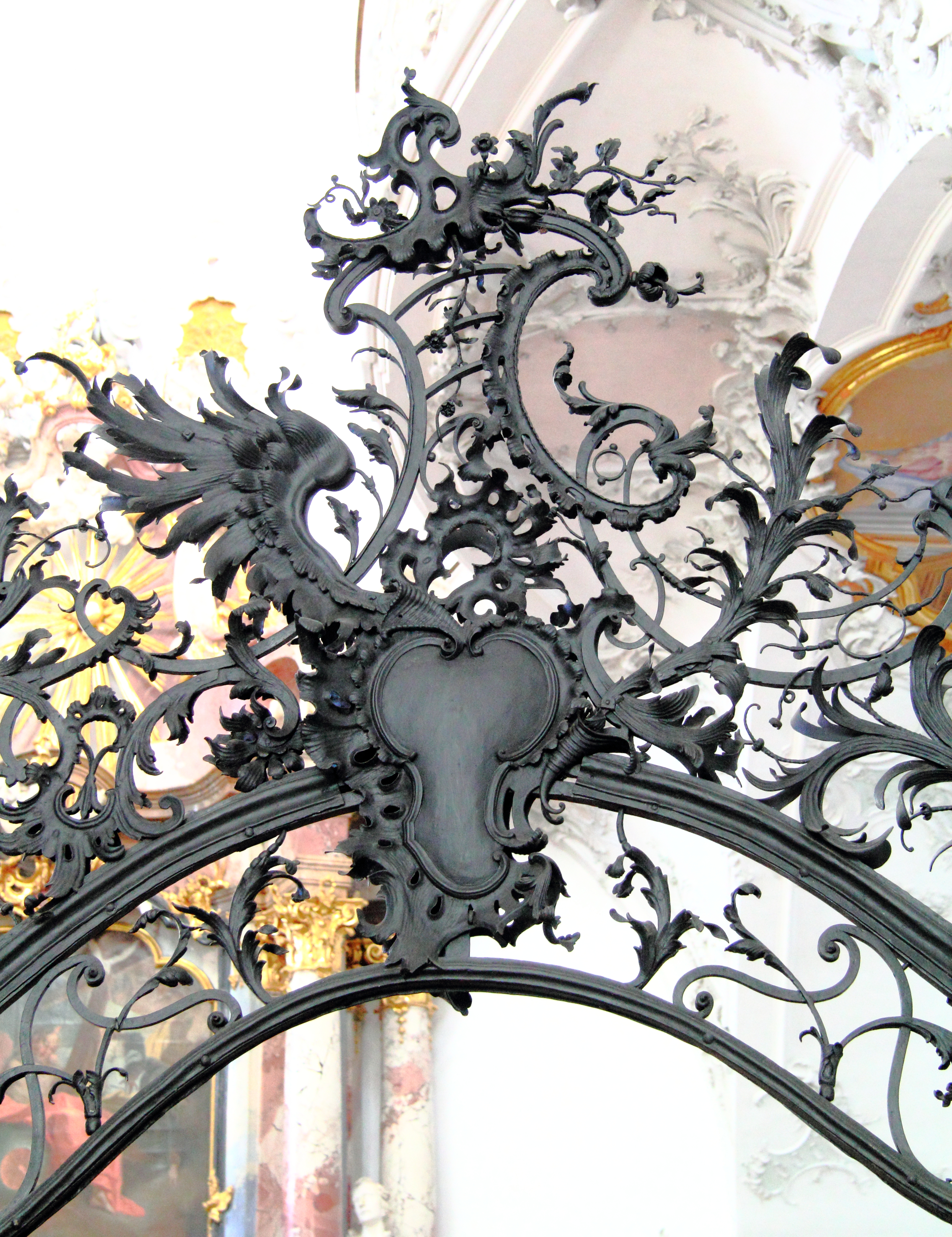 Amorbach Abbey, Odenwald forest, Bavaria/Germany, abbey church